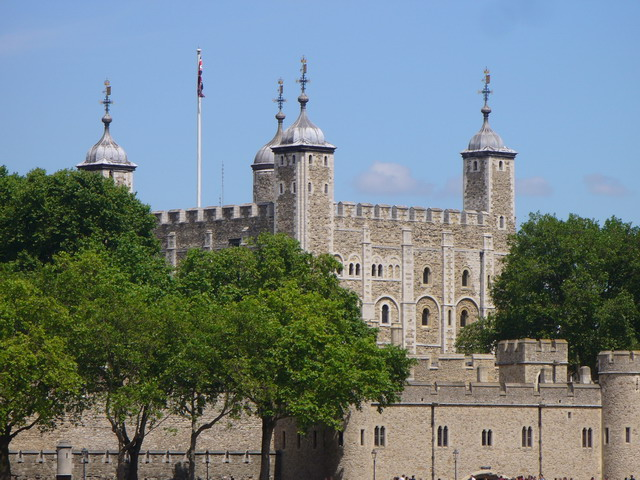 Tower of London